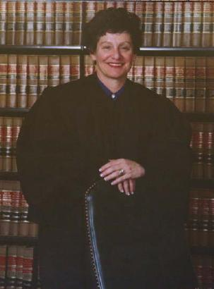 Official Portrait of Barbara M. Lynn, U.S. District Court Judge